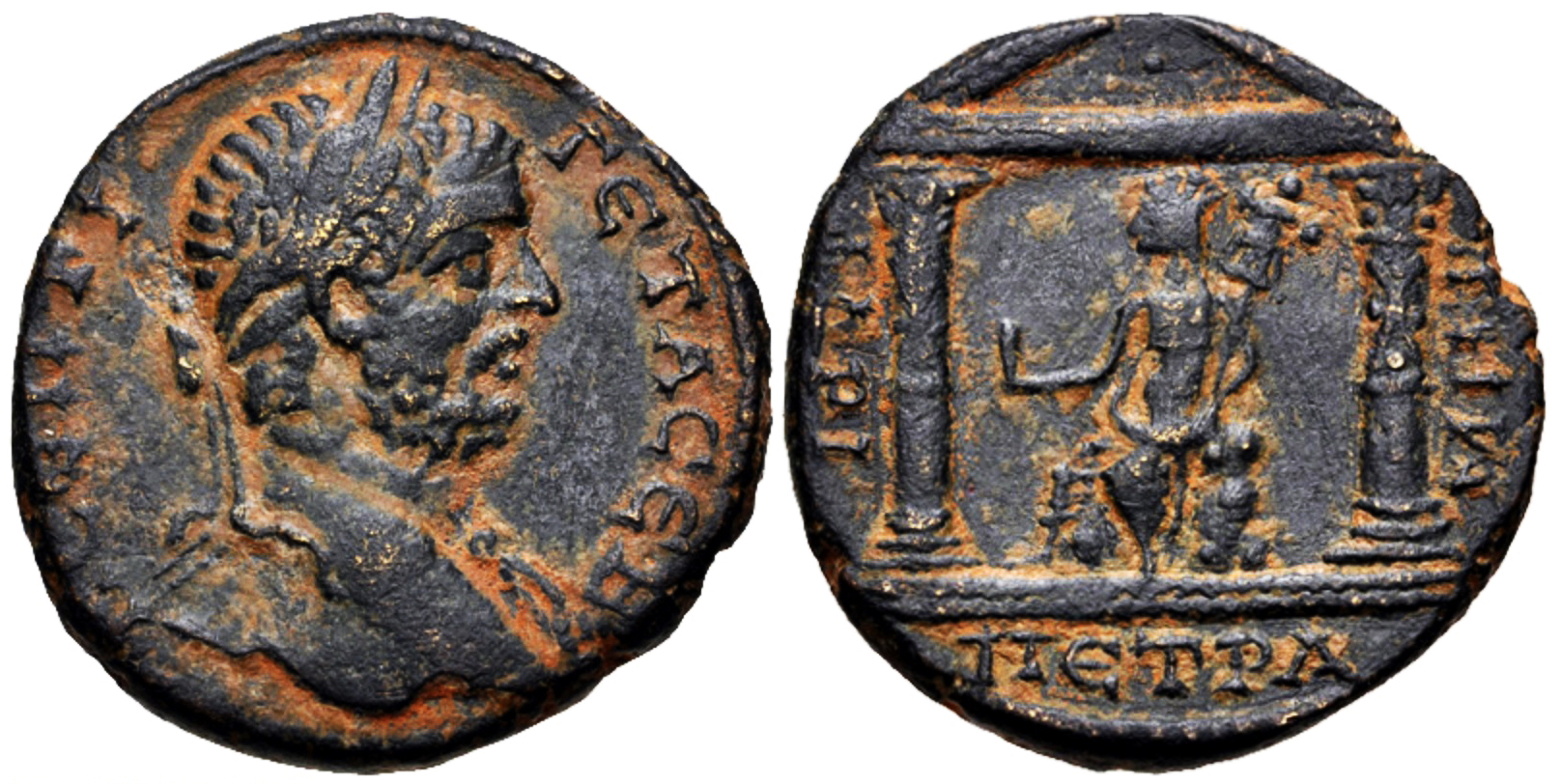 Roman bronze coin of Geta showing the Petra temple with statue of Tyche (26 mm, 13.41 g)